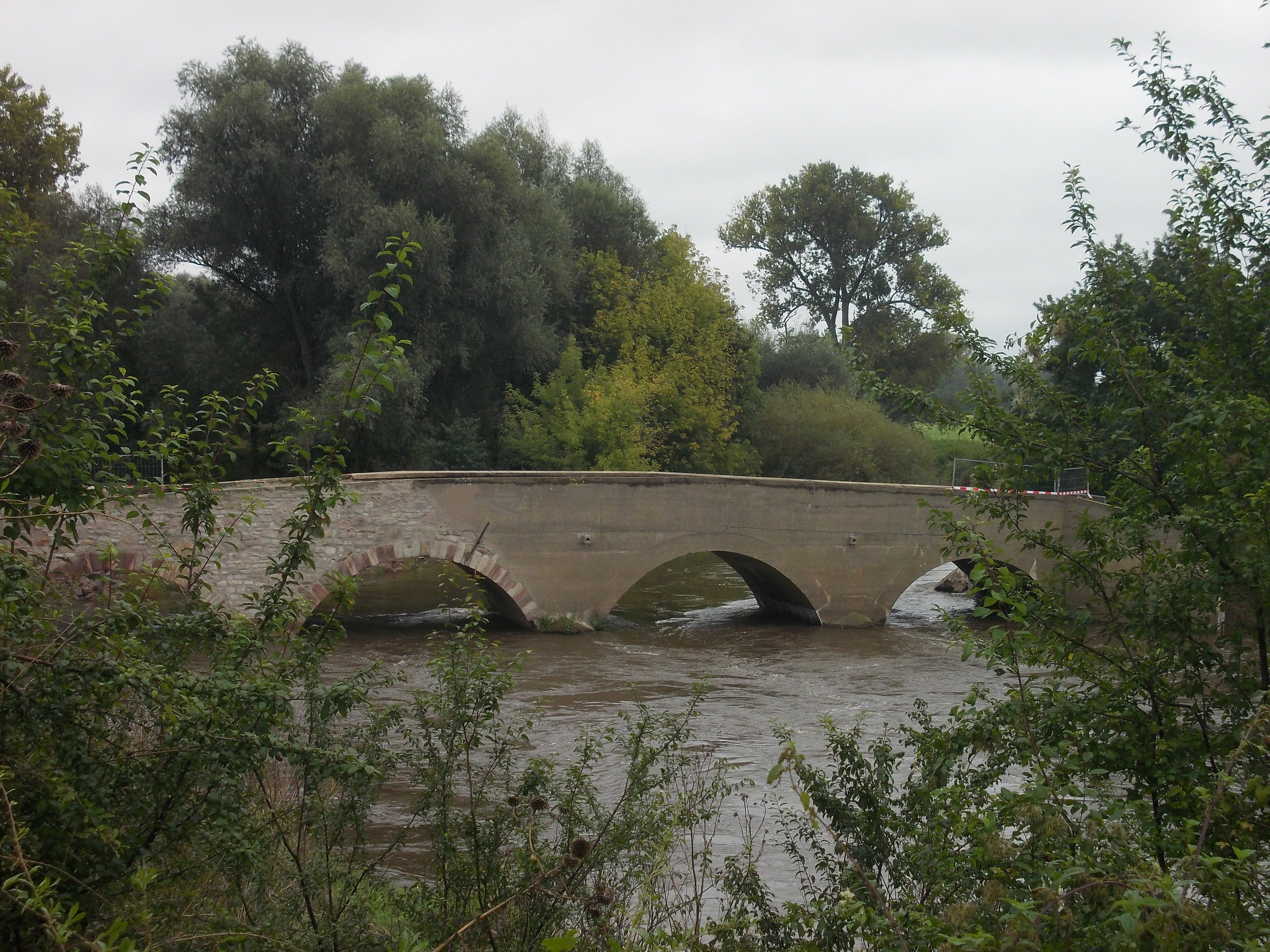 Schafbrücke over the Weisse Elster river in Ammendorf (Halle/Saale, Saxony-Anhalt)